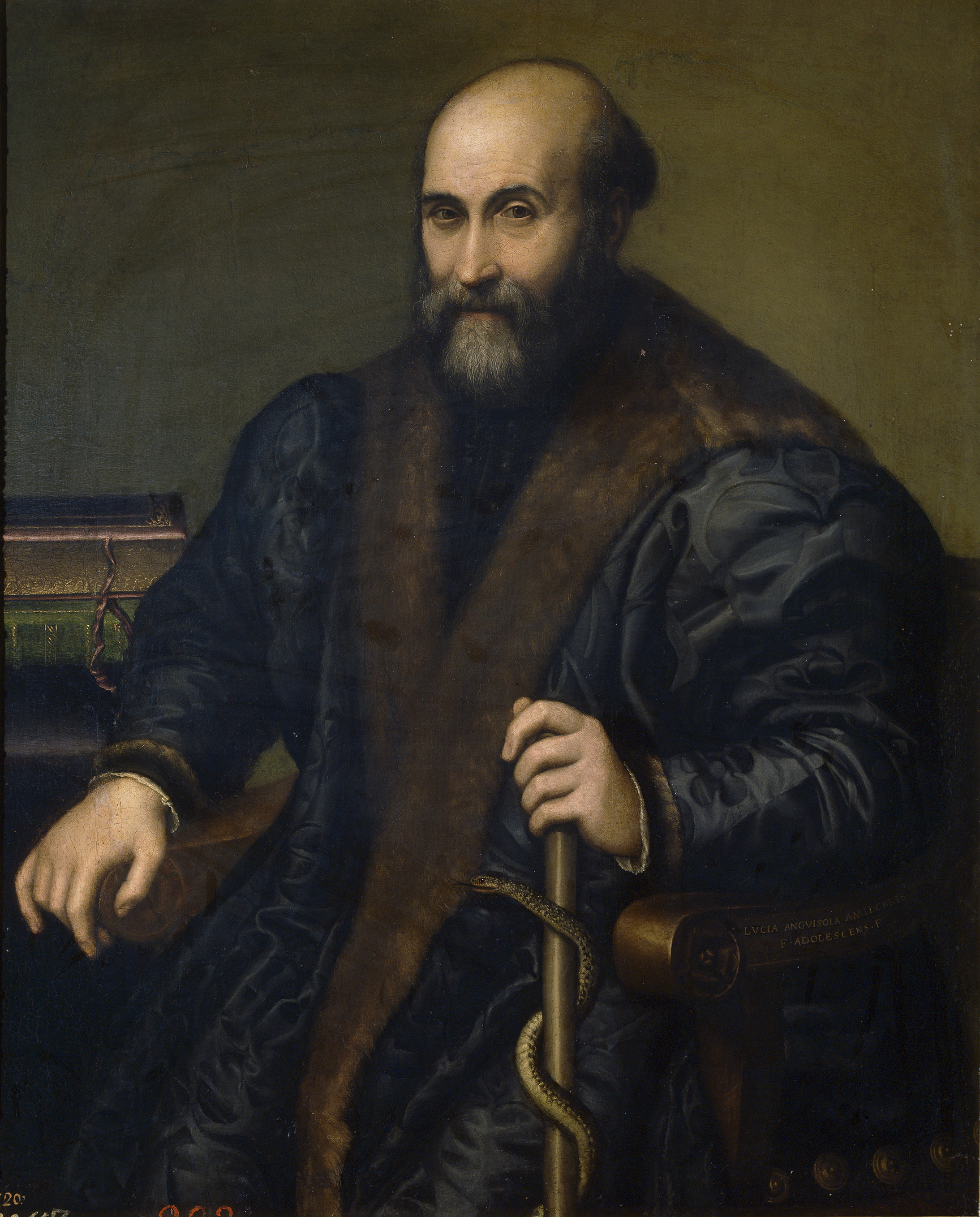 Doctor of Cremona